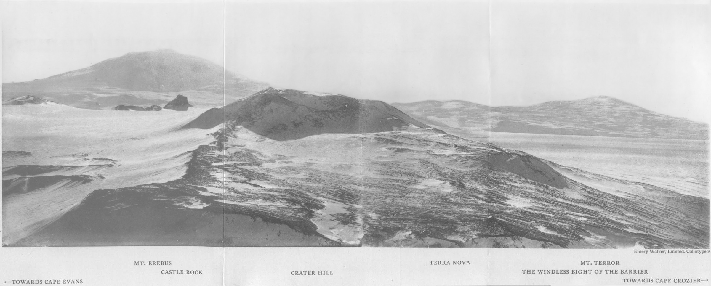 Panorama of Ross Island showing Hut Point Peninsula (foreground), Mount Erebus (left), Mount Terror (right) and the ship Terra Nova (center)